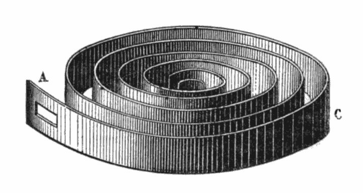 Drawing of a clock mainspring from the mid 19th century. WARNING - Never disassemble a watch or clock that contains a mainspring without the proper tools and techniques. The mainspring contains a lot of energy and can release suddenly, causing serious injury.